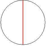 circle with diameter-line